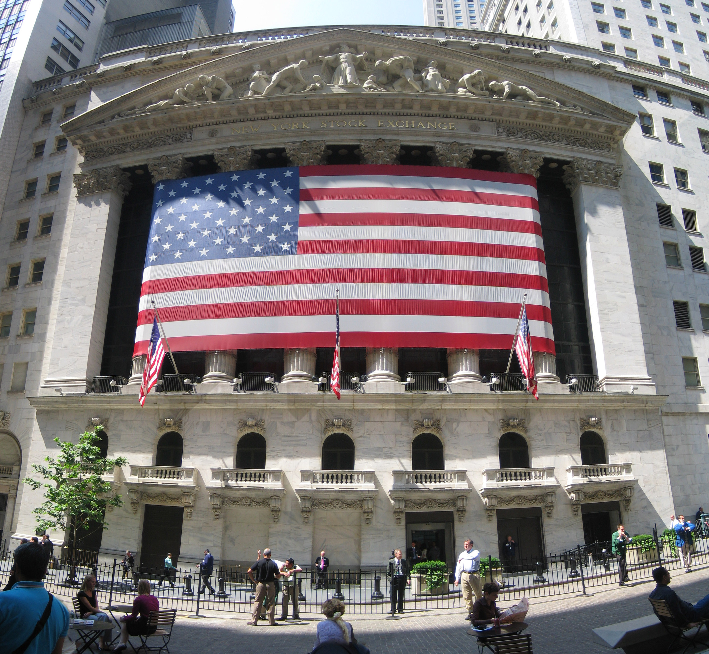 A picture of the New York Stock Exchange building taken in August 2006. This picture is a composite of fifteen smaller pictures to simulate a wide angle photo.